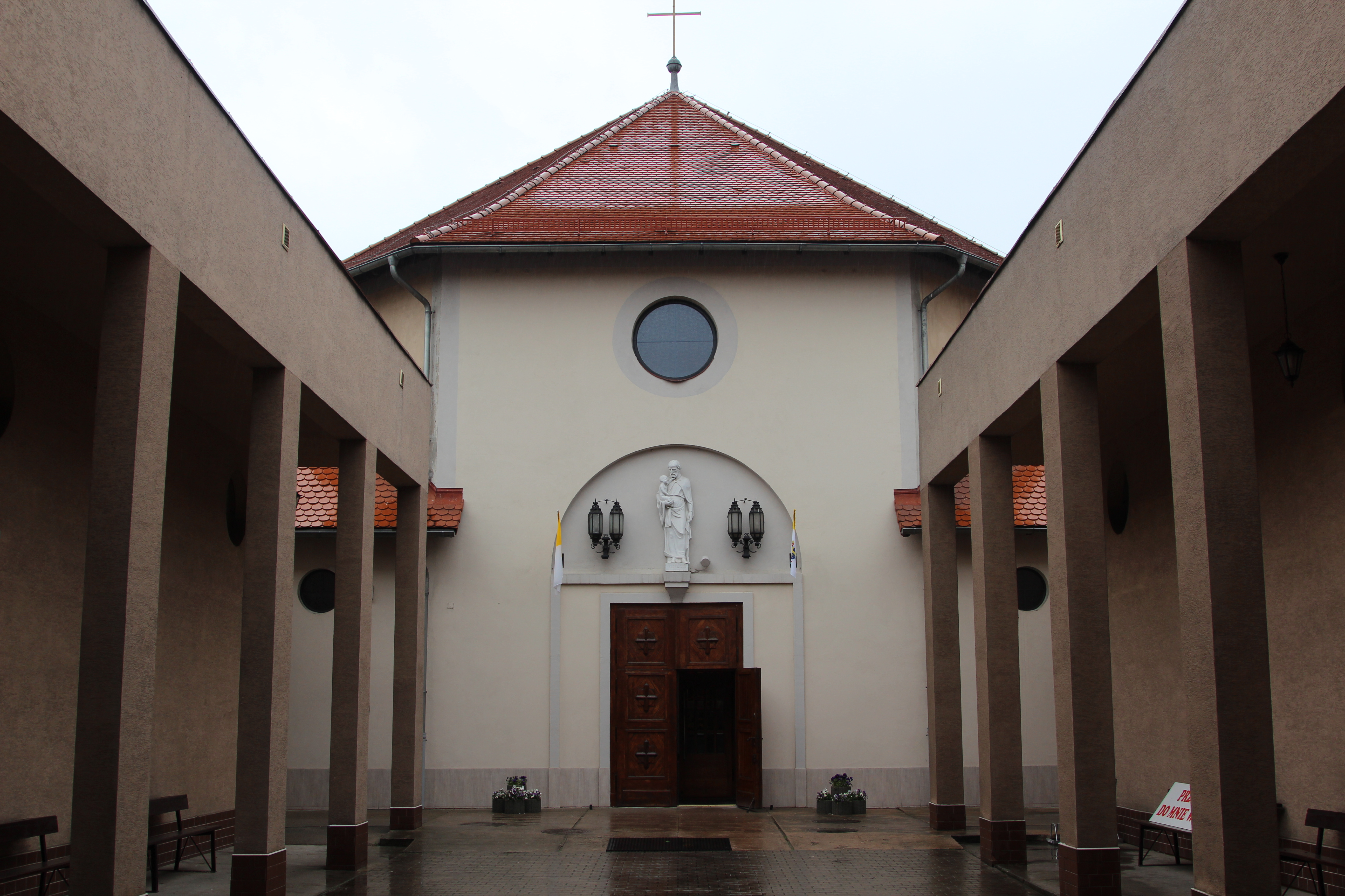 Saint Joseph the Worker church in Wrocław